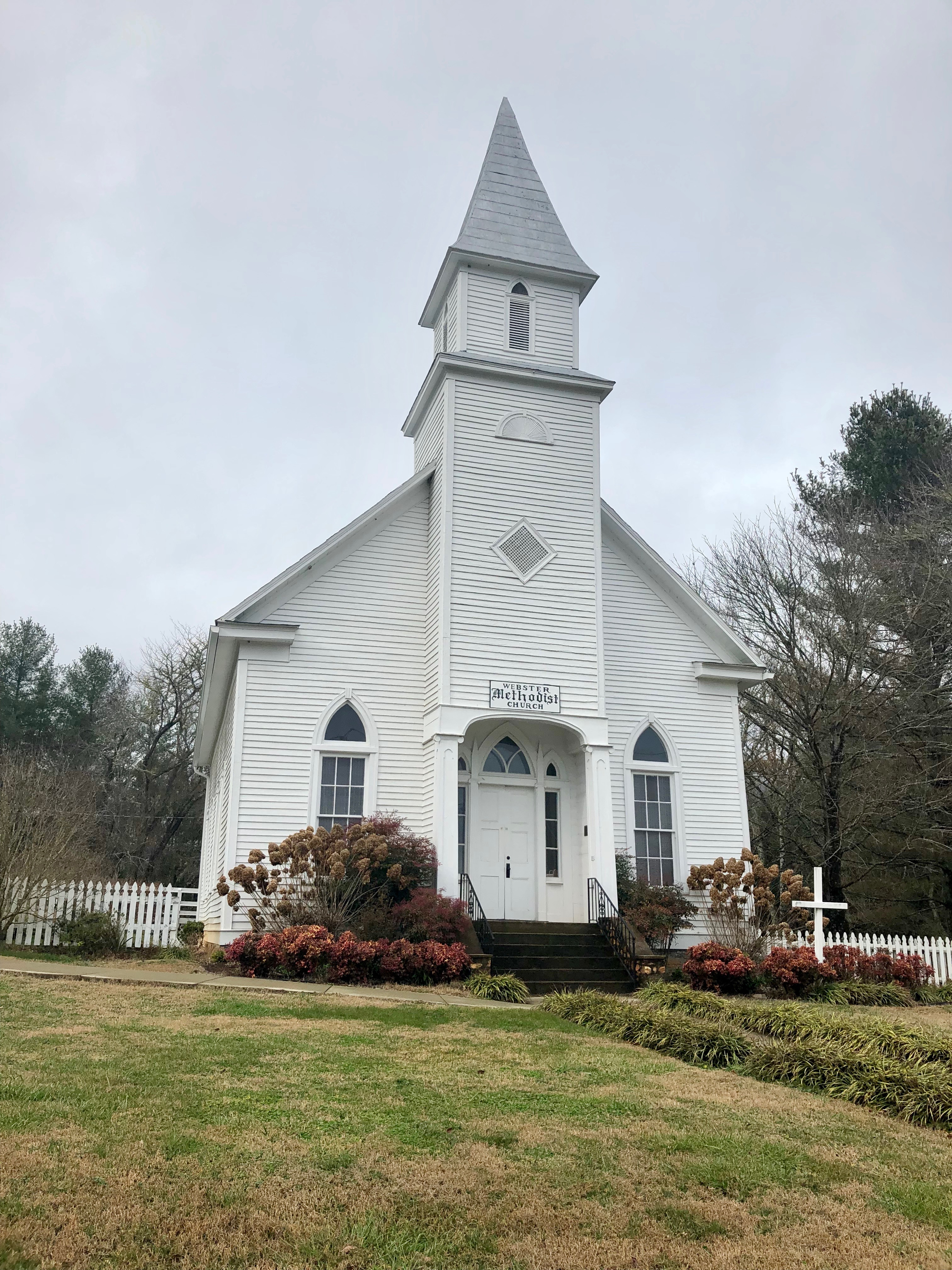 This is the Webster Methodist Church, located on Webster Road in the center of town. Constructed in 1887, the wood-frame Gothic Revival-Style Church was built when Webster was the thriving county seat of Jackson County, and the area around it was full of homes and businesses that made up the commercial district of the town. Due to many factors, including the failure of a planned railroad line to serve the town, Webster went into decline beginning around the turn of the 20th Century, furthered when the county seat and courthouse was moved to Sylva in 1914, leading to a mass exodus of businesses and people from the town, which dissolved. Though some construction did occur in the intervening years and a few businesses held on for several decades, by the time the town was re-incorporated in 1953, there was no local business district to speak of, and the main anchors of the town were the school and churches. The Methodist Church received a small rear addition in 1933, and was renovated in 1939, 1945, 1960, 2000, and most recently, 2012, when repairs were carried out on the structure. Today, this church remains one of the town’s most important historic buildings, and was listed on the National Register of Historic Places in 1989.